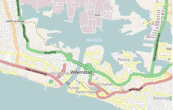 This map may be incomplete, and may contain errors. Don't rely solely on it for navigation.